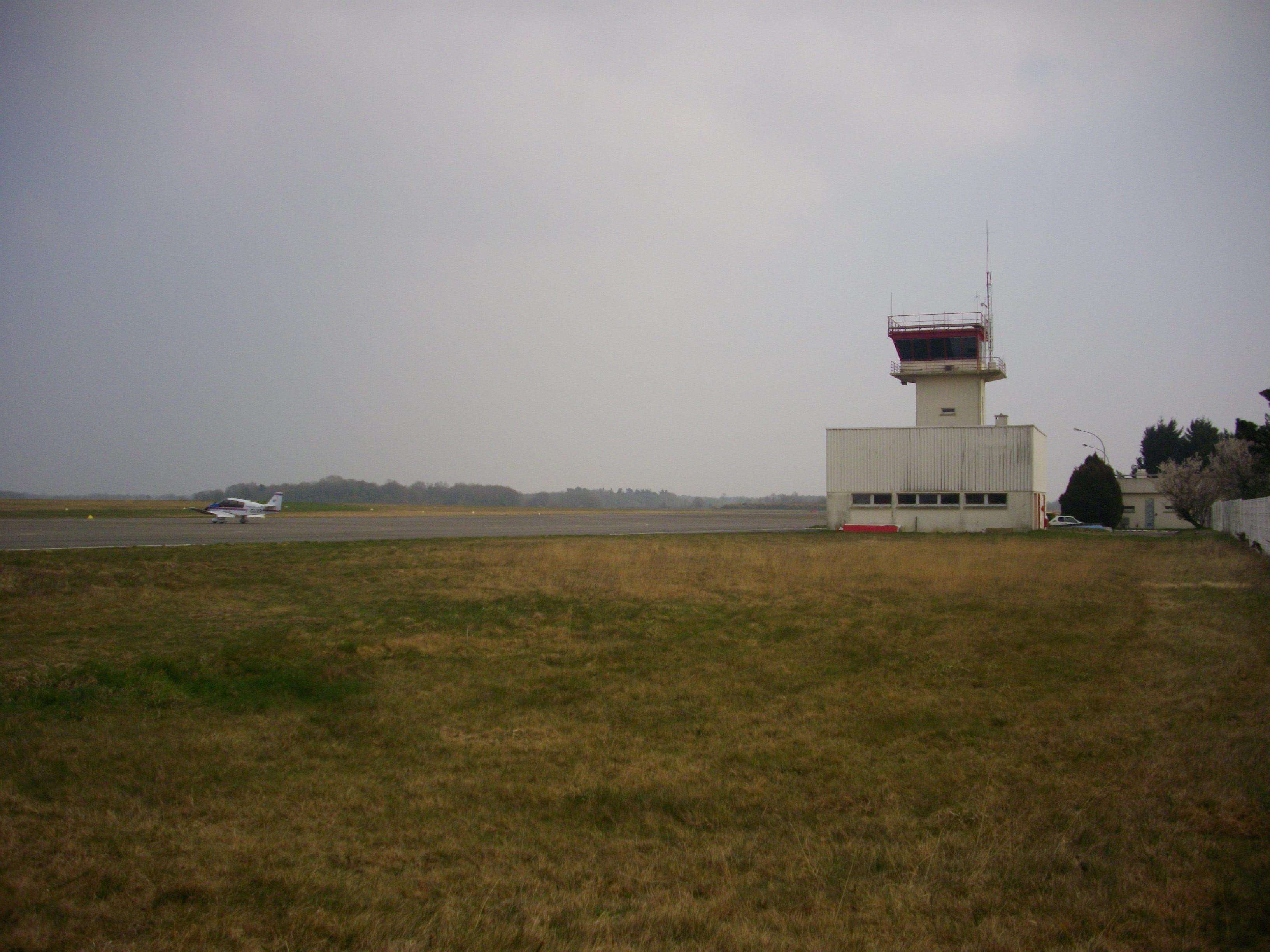 Control tower of Vannes-Meucon airfield